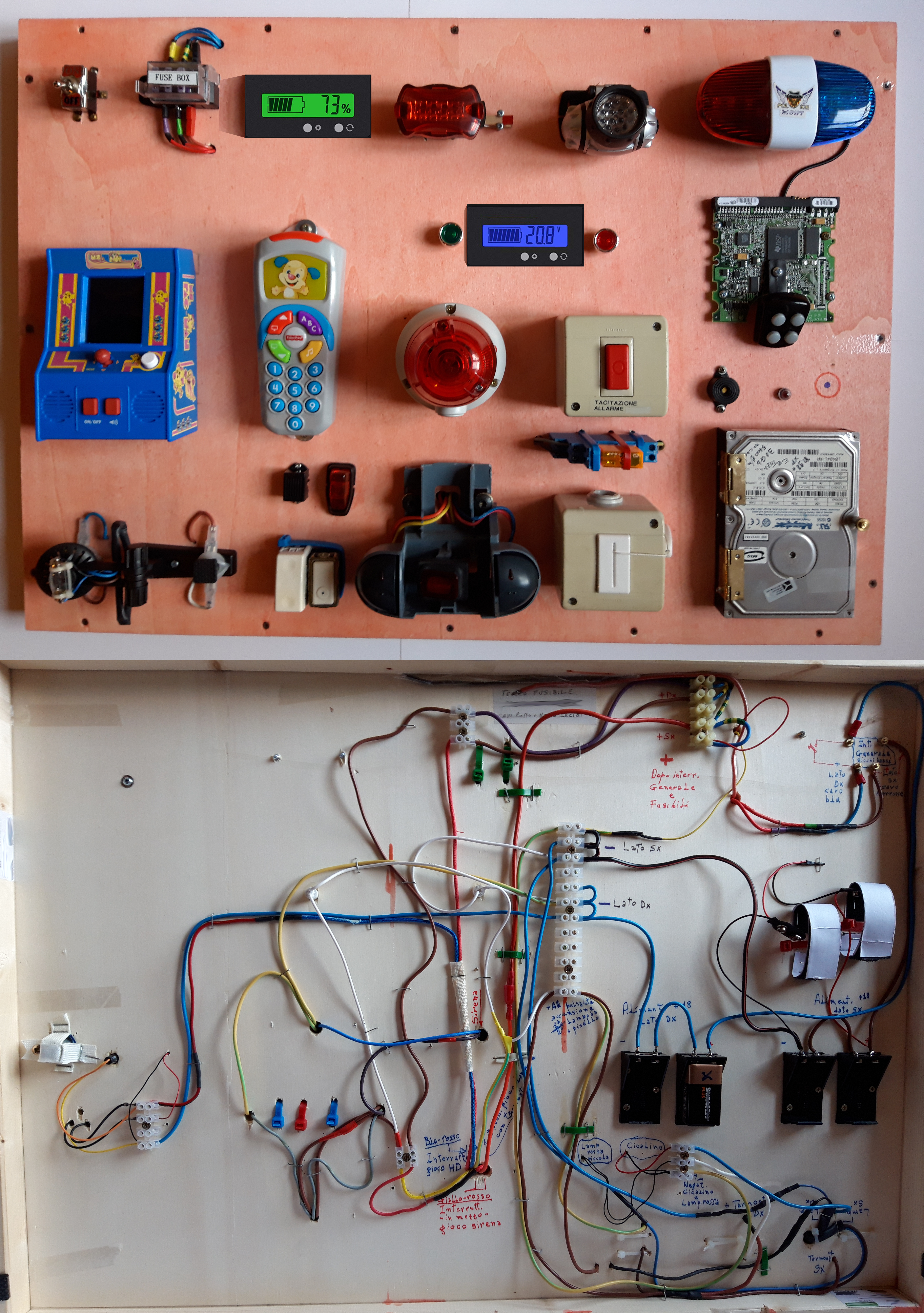 Interactive multimedia educational game, made with new parts and pieces recovered from the demolition of small appliances. Suitable for children from 2 to 6 years old.